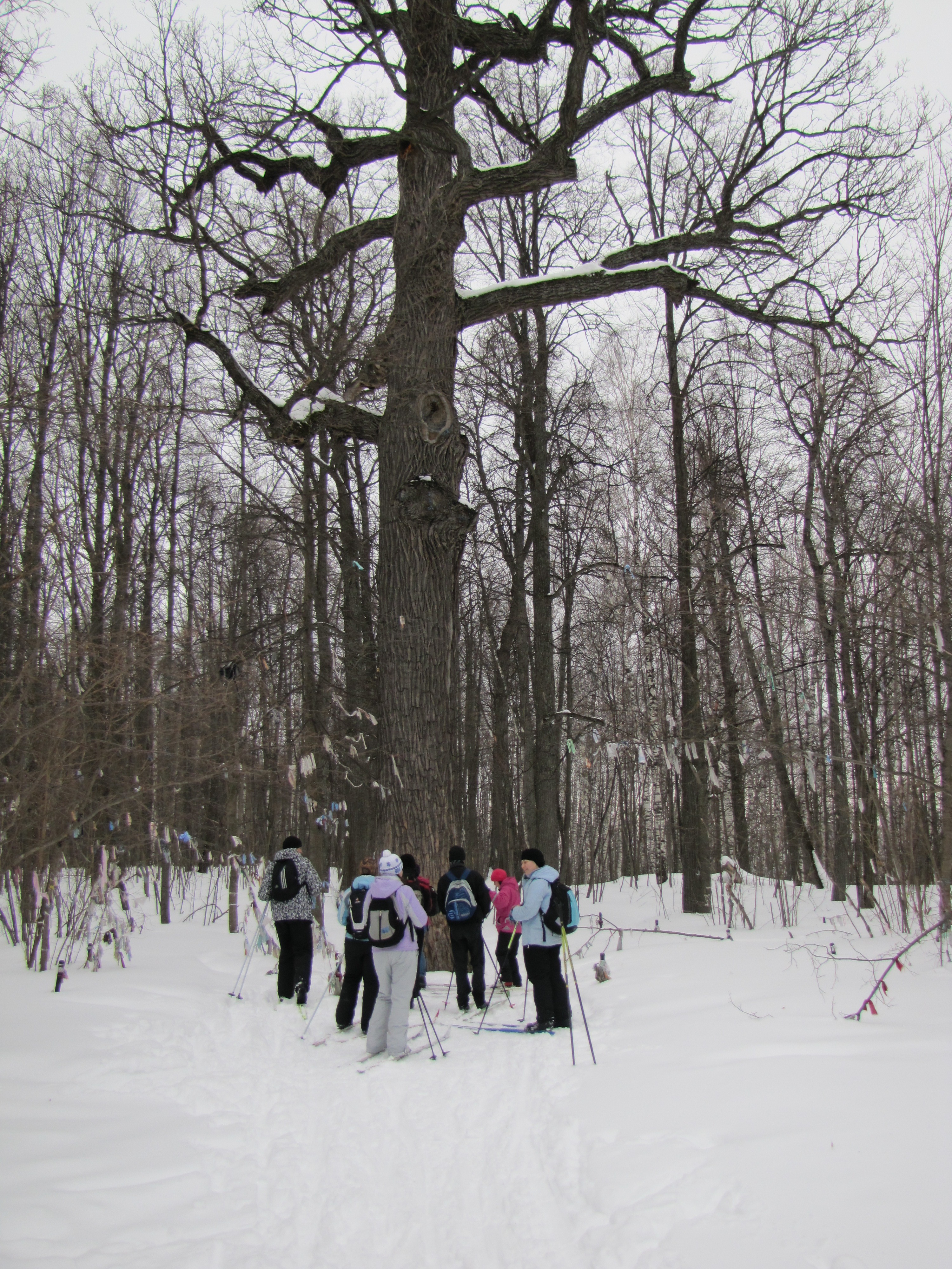 Pugachov's Oak and outdoor tourist skiers around it